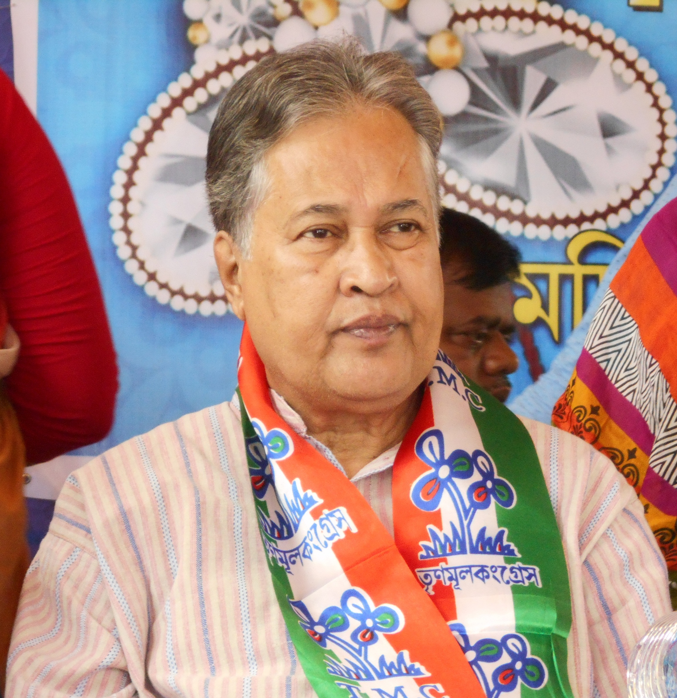 Hon'ble Chairman of Midnapore Municipality in a Cultural Event